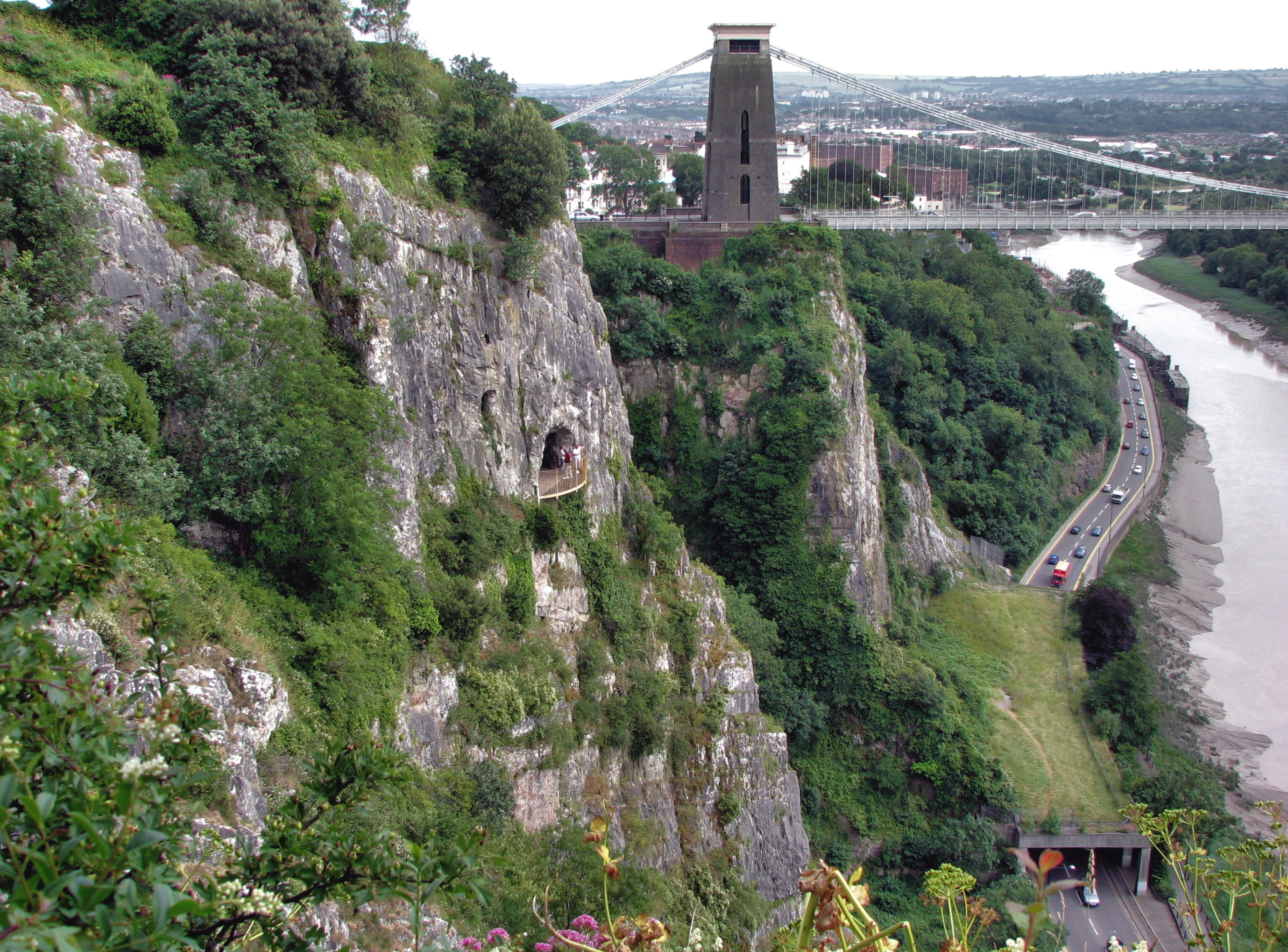 The Avon Gorge and Clifton Suspension Bridge, looking towards the city of Bristol. The cave (with the people) is Giant’s Cave, accessible to the public. The grass-roofed tunnel is to protect traffic from falling rocks.